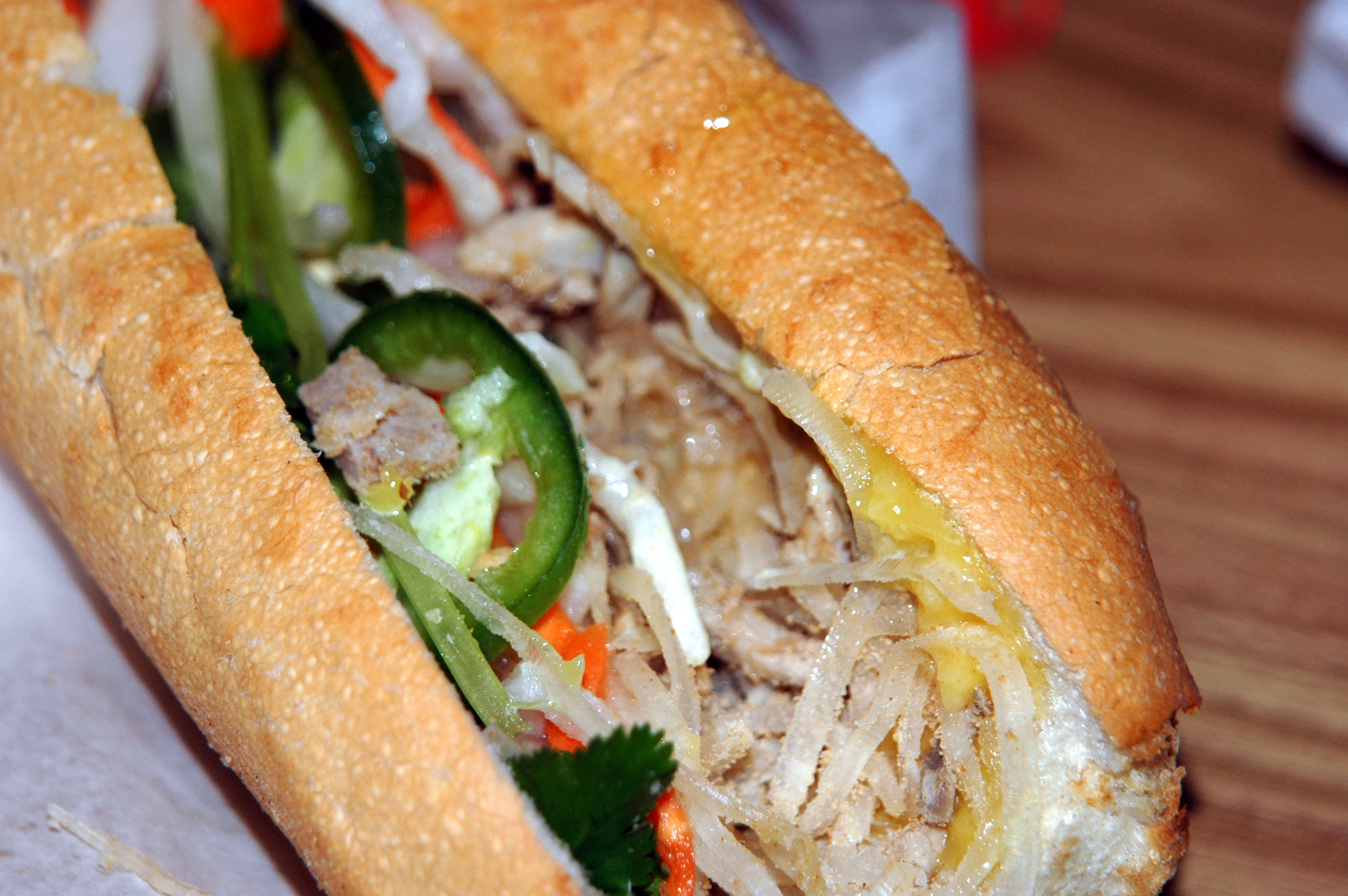 Banh Mi at Eden Center, Banh mi at Eden Center. For more like this, see [1] Falls Church